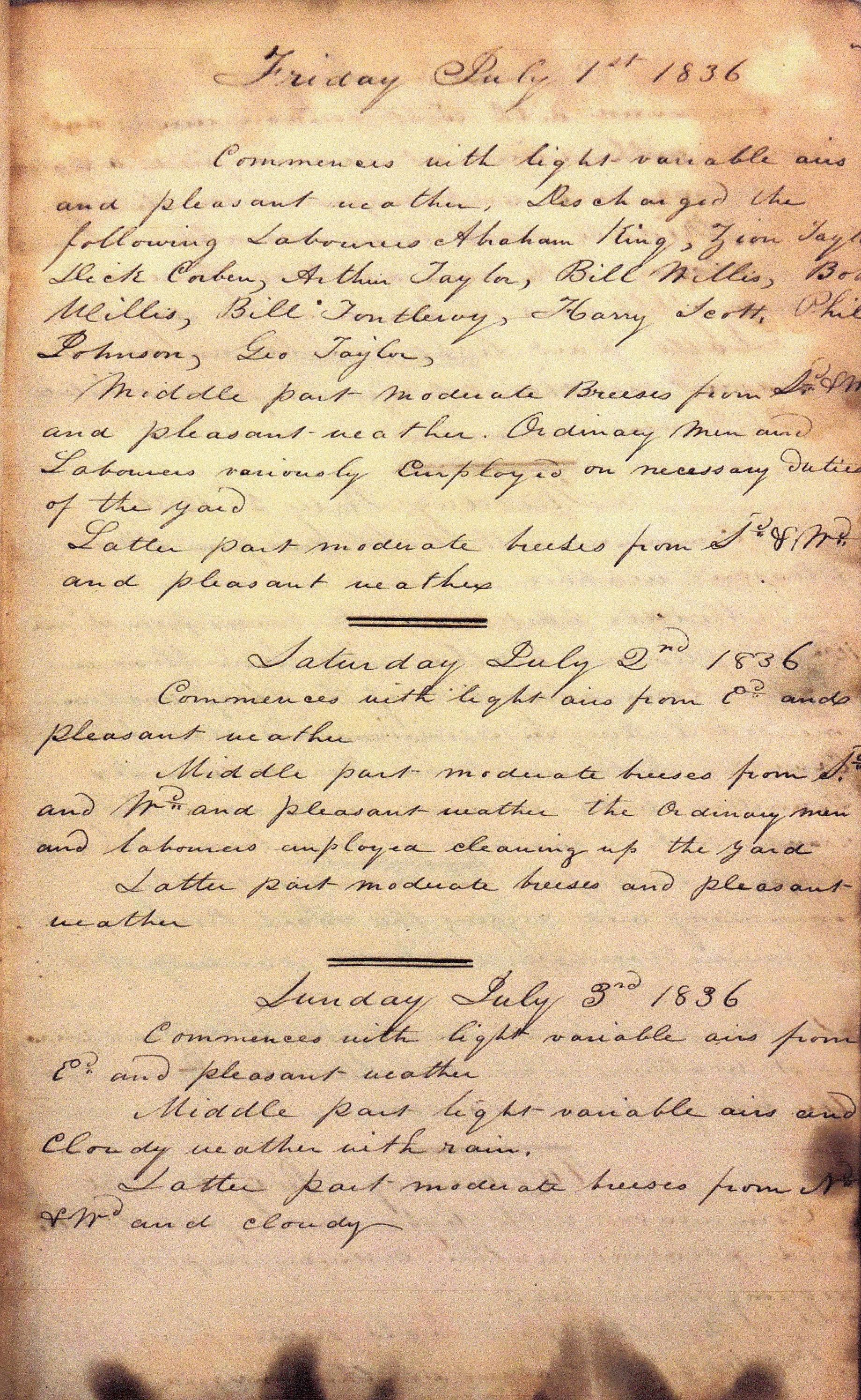 Although not explicitly stated in the Pensacola log entries, enslaved black workers were “laborers” while white workers were categorized as belonging to “the ordinary.” The payrolls of Pensacola Navy Yard reflect that enslaved laborers were leased from prominent members of Pensacola society. These slaves often took the names of these families such as Moreno, Willis, Ahrens, Forysth Gonzales, Oldmixon and Morton (see entries for 1 July 1836, 1 August 1836 and 14 September 1836). Thomas Hulse, "Military Slave Rentals, the Construction of Army Fortifications, and the Navy Yard in Pensacola, Florida, 1824–1863," Florida Historical Quarterly, 88 (Spring 2010), 514 - 515.